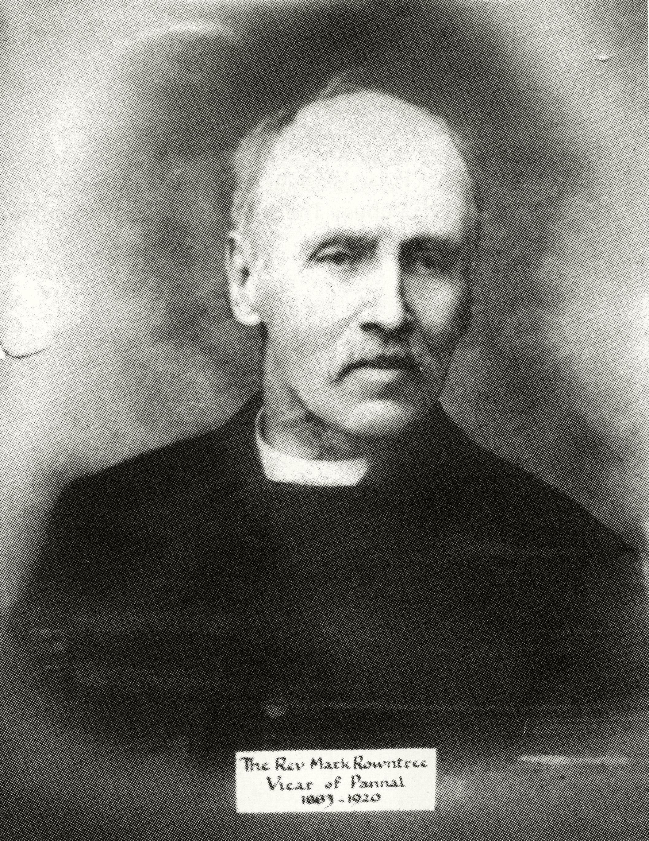 Mark Rowntree (1839-1923), vicar of St Roberts Church, Pannal, 1883-1920.